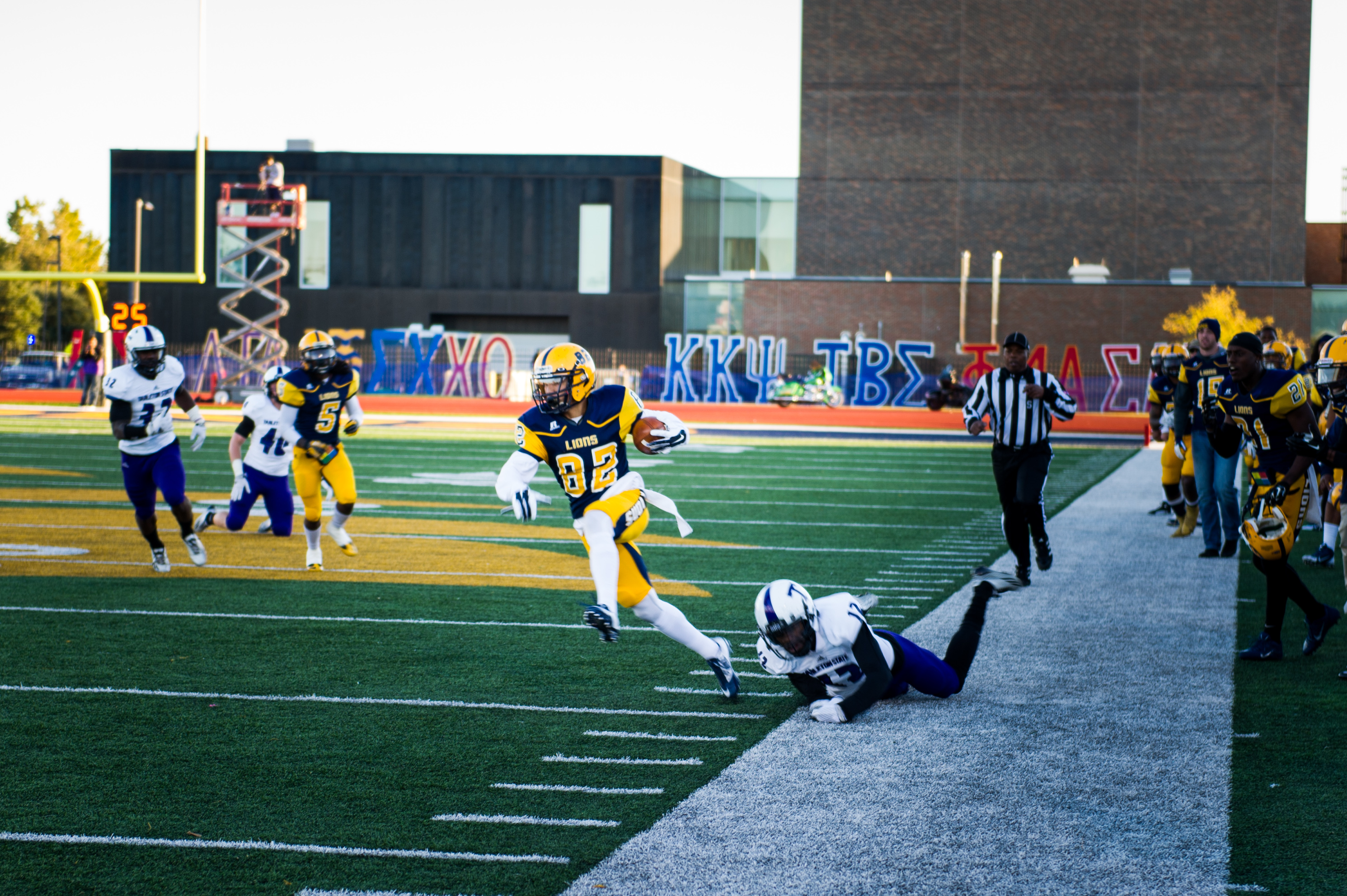 Athletics-Football-5763.jpg Scenes from the Tarleton State Texans vs. Texas A&M–Commerce Lions football game on November 8, 2014.